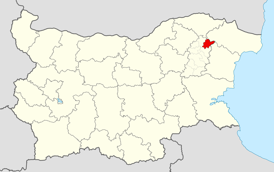 Location map of Nikola Kozlevo Municipality within Bulgaria and Shumen Province. Equirectangular projection, N/S stretching 130 %. Geographic limits of the map: N: 44.4° N S: 41.1° N W: 22.1° E E: 28.9° E